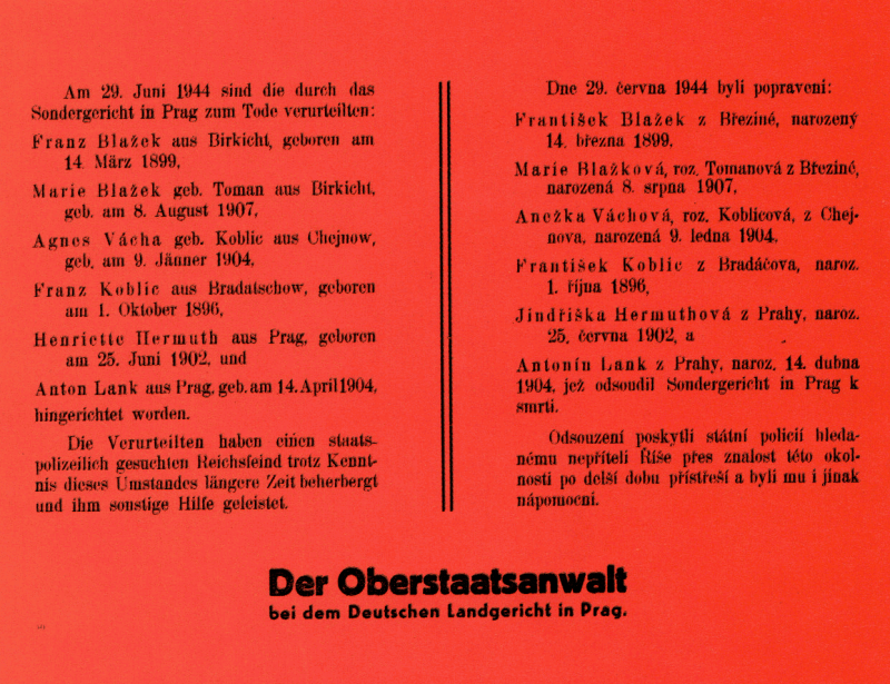 A poster from the Protectorate of Bohemia and Moravia which in German and Czech announces the names of those who were executed